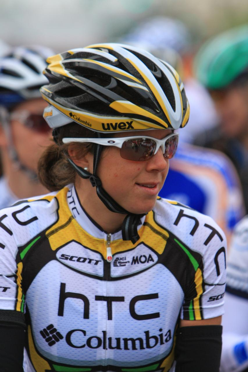 Pro, 1, 2, 3 women. 2010 MERCO Credit Union Grand Prix Criterium, Merced, CA. Please add comments or notes with names you know. I'll change the titles where appropriate. Thanks!